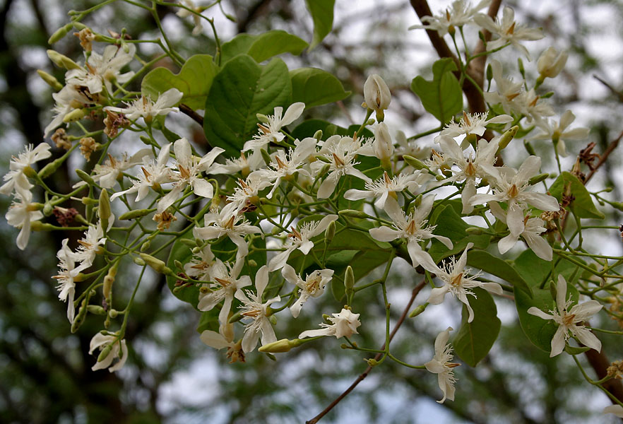 Wrightia tinctoria (syn. Nerium tinctorium, Nerium tinctorium)- black indrajau, dyeing rosebay, dyers’s oleander, ivory tree, pala indigo plant, sweet indrajao • Gujarati: દૂધલો dudhalo • Hindi: दुधी dudhi, इन्द्रजौ indrajau, काला कुडा kala kuda, करायजा karayaja, कुडा kuda • Kannada: ಅಜಮರ ajamara • Konkani: काळाकुडो kalakudo • Marathi: भूरेवडी bhurevadi, काळा कुडा kala kuda • Malayalam: ഭന്തപ്പാല bhanthappaala, കമ്പിപ്പാല kampippaala, നിലപ്പാല nilappaala • Sanskrit: असित कुटज asita kutaj, hyamaraka, स्त्री कुटज stri kutaja • Tamil: இரும்பாலை irum-palai, பாலை paalai, வெட்பாலை vet-palai • Telugu: అంకుడుచెట్టు ankuduchettu, చిట్టిఅంకుడు chiti-anikudu, కొండజెముడు kondajemudu in Keesara, Rangareddy district, Andhra Pradesh, India.